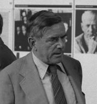 Title: Golo Mann 1978 People in the image: Golo Mann Factual corrections and alternative descriptions are encouraged separately from the original description. Additionally errors can be reported at this page to inform the Bundesarchiv. Original historic description: Golo Mann 1978, Wissenschaftliche Tagung der Stiftung "Konrad-Adenauer-Haus" im Konrad-Adenauer-Haus, Rhöndorf